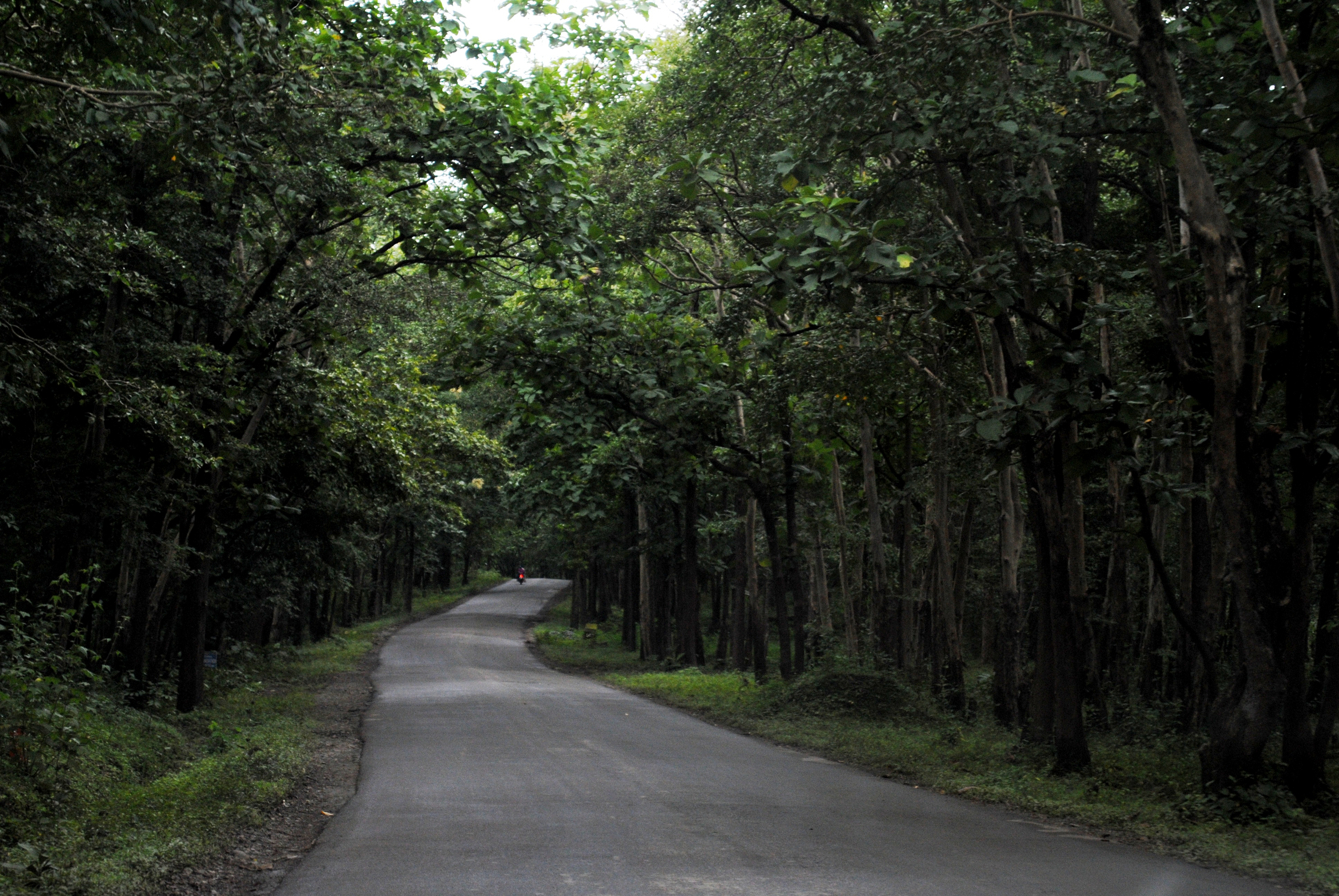 A drive through Anshi National Park